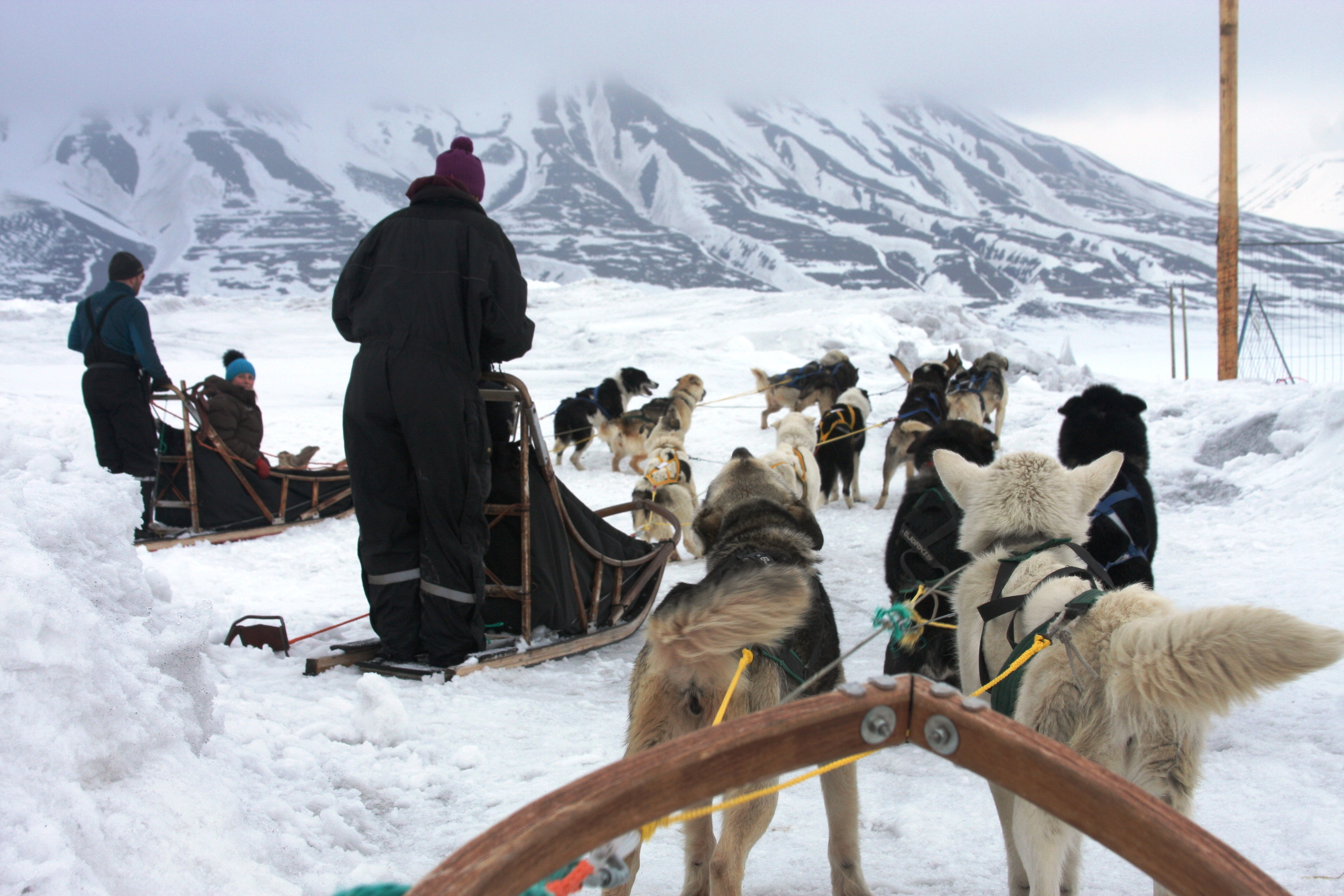 Greenland Dog trecking in Advent Valley, east of Longyearbyen.